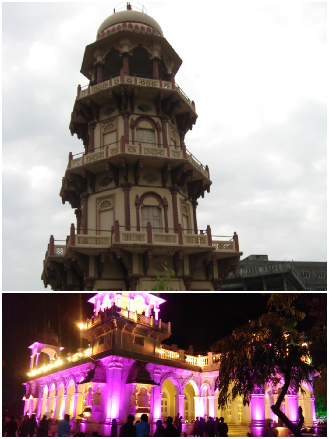 Kirti stambh, King george v club